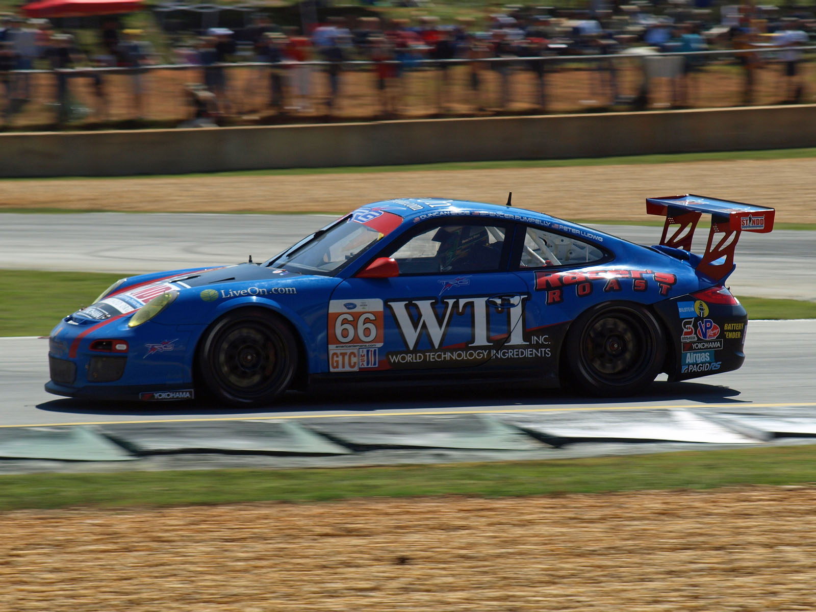 Duncan Ende driving the TRG Porsche 997 GT3 Cup in the 2011 Petit Le Mans at Road Atlanta.